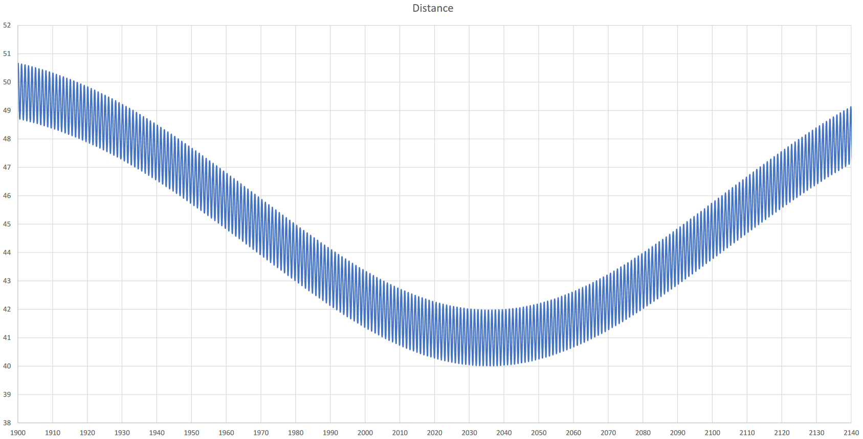 en:19521 Chaos chart